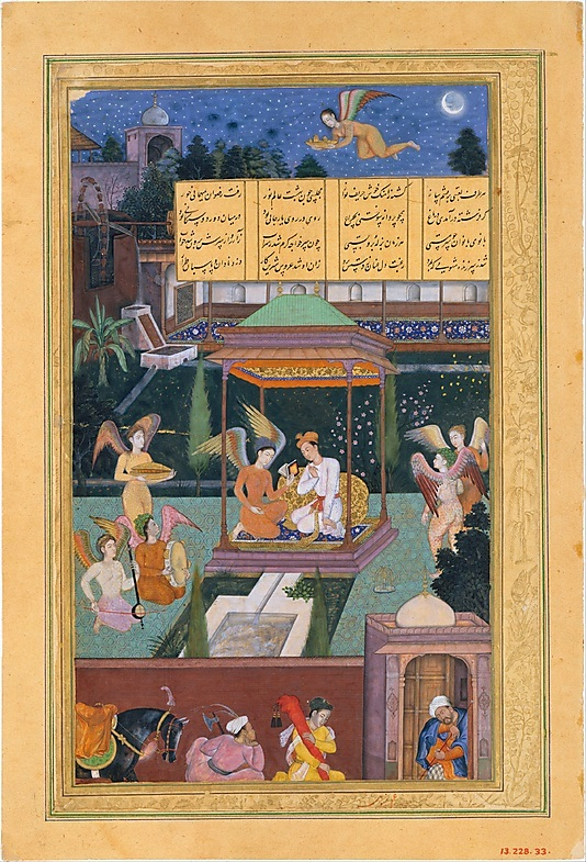 "The Story of the Princess of the Blue Pavillion: The Youth of Rum Is Entertained in a Garden by a Fairy and her Maidens", Folio from a Khamsa (Quintet) of Amir Khusrau Dihlavi Muhammad Husain Kashmiri (active ca. 1560–1611)